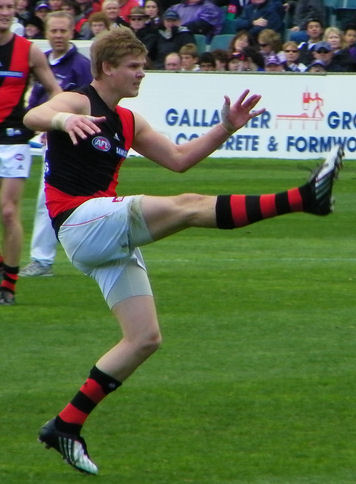 Essendon player Michael Hurley